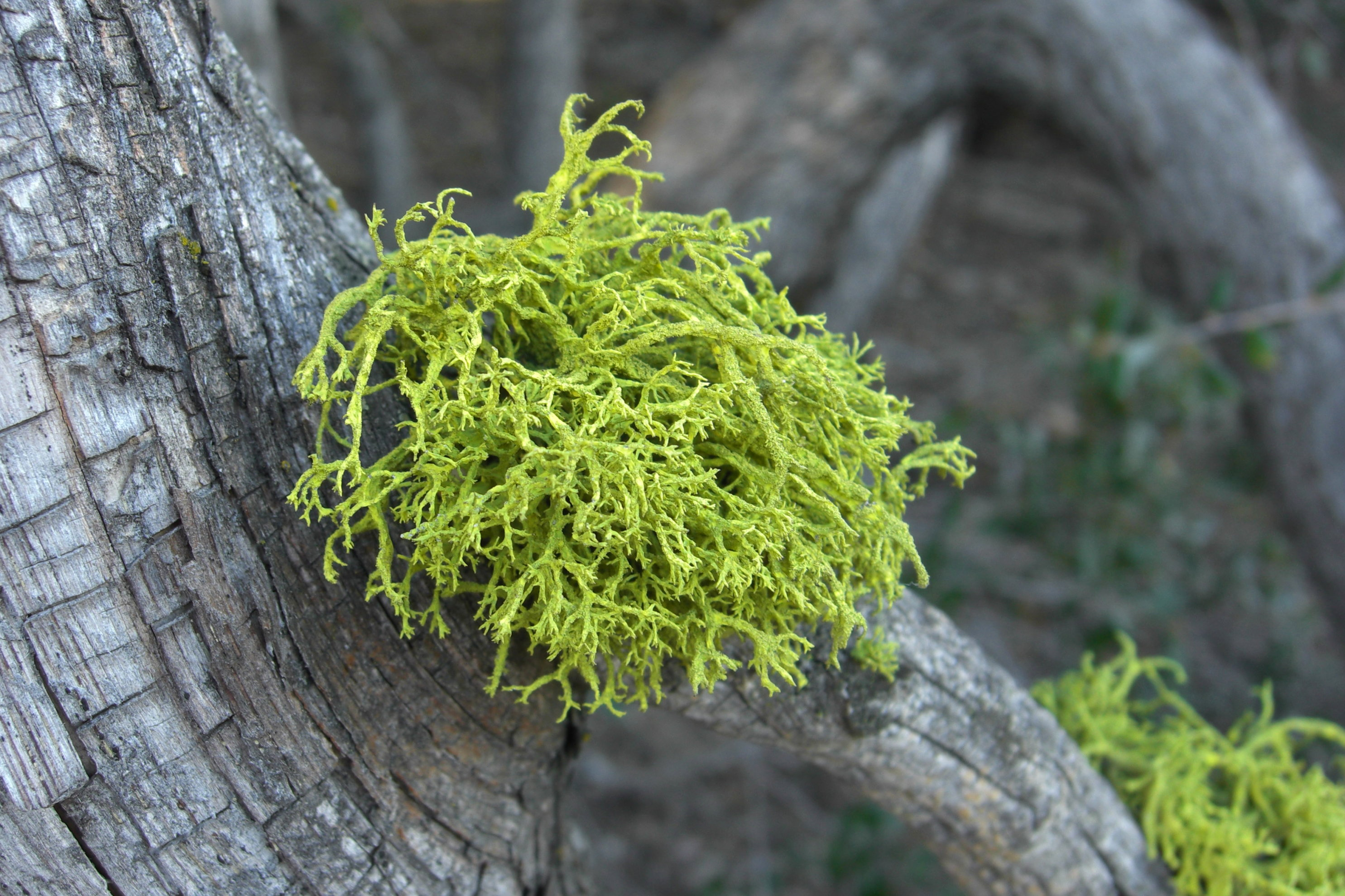 The lichen Letharia vulpina (L.) Hue photographed on Pseudotsuga macrocarpa and Calocedrus bark and wood in places with northern exposure. Location: Mt. Gleason, San Gabriel Mountains, Los Angeles Co., California, USA.